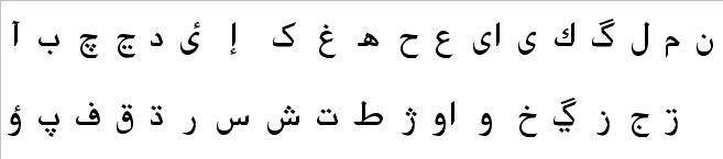 Lak arabian alphabet (1918)